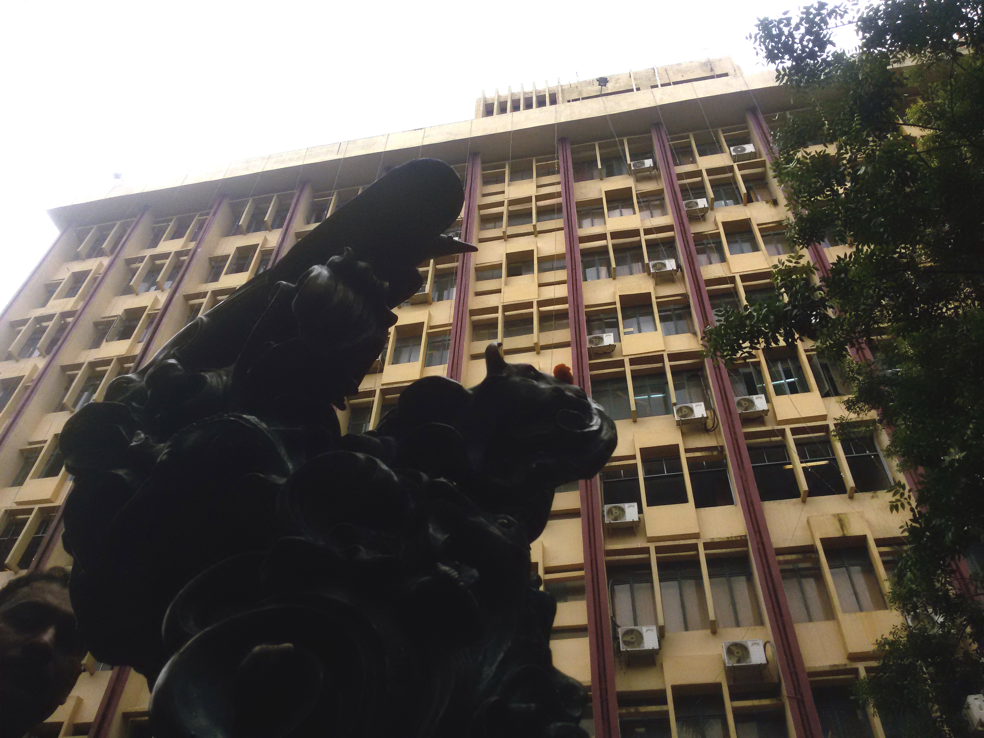 ZSI, Kolkata